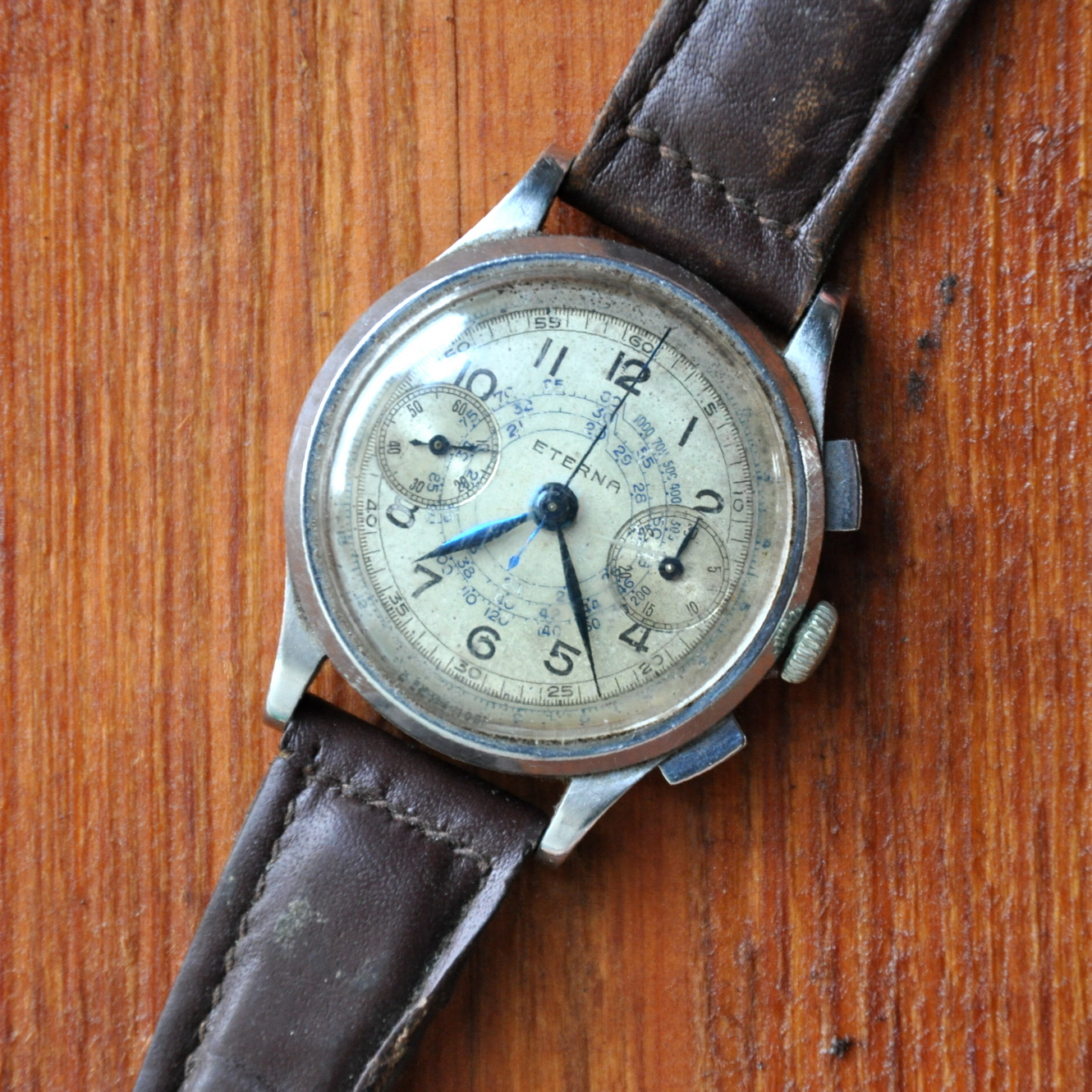 Watches of Switzerland - Eterna